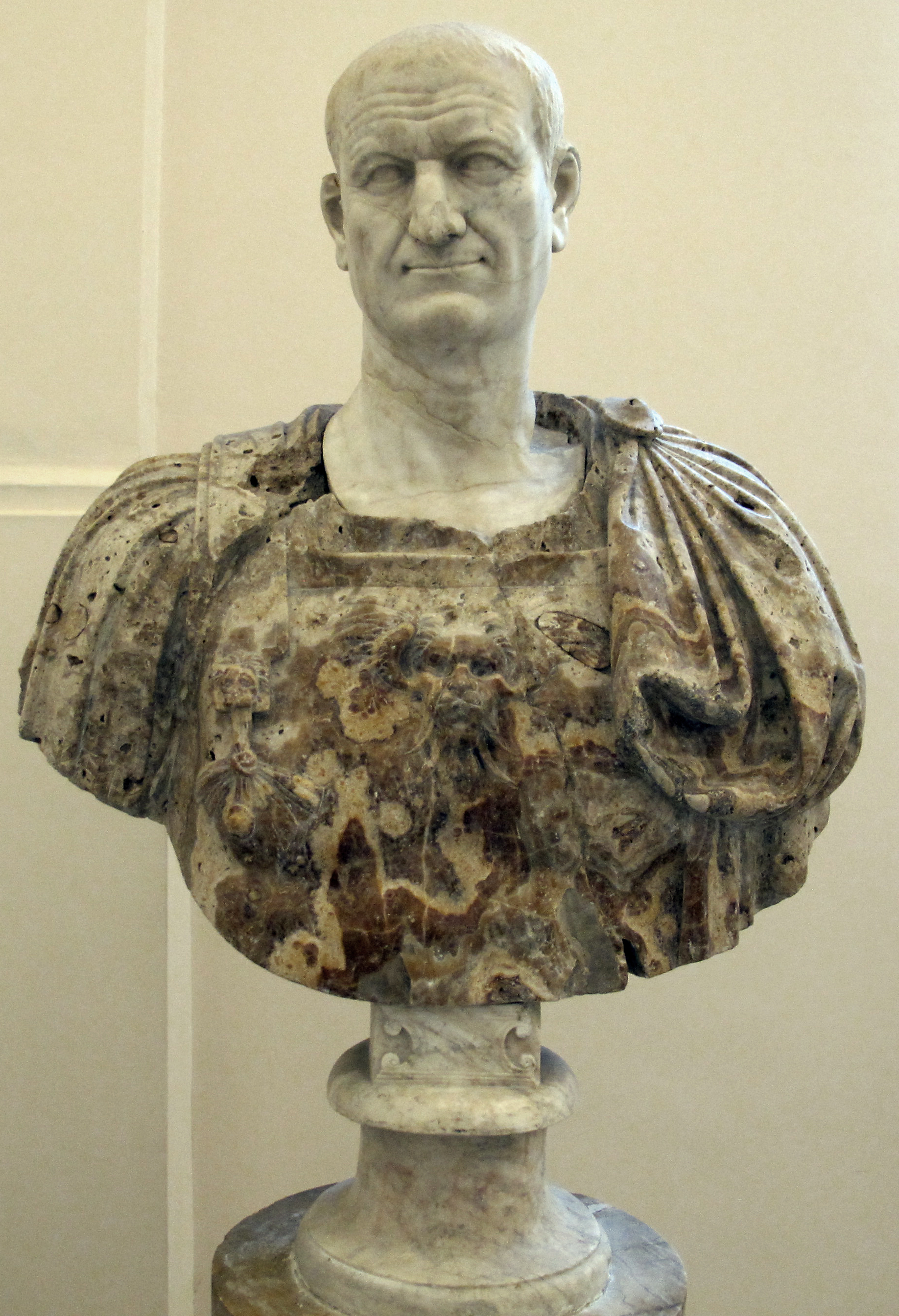 Ancient Roman busts in the Museo Archeologico (Naples), Farnese Collection